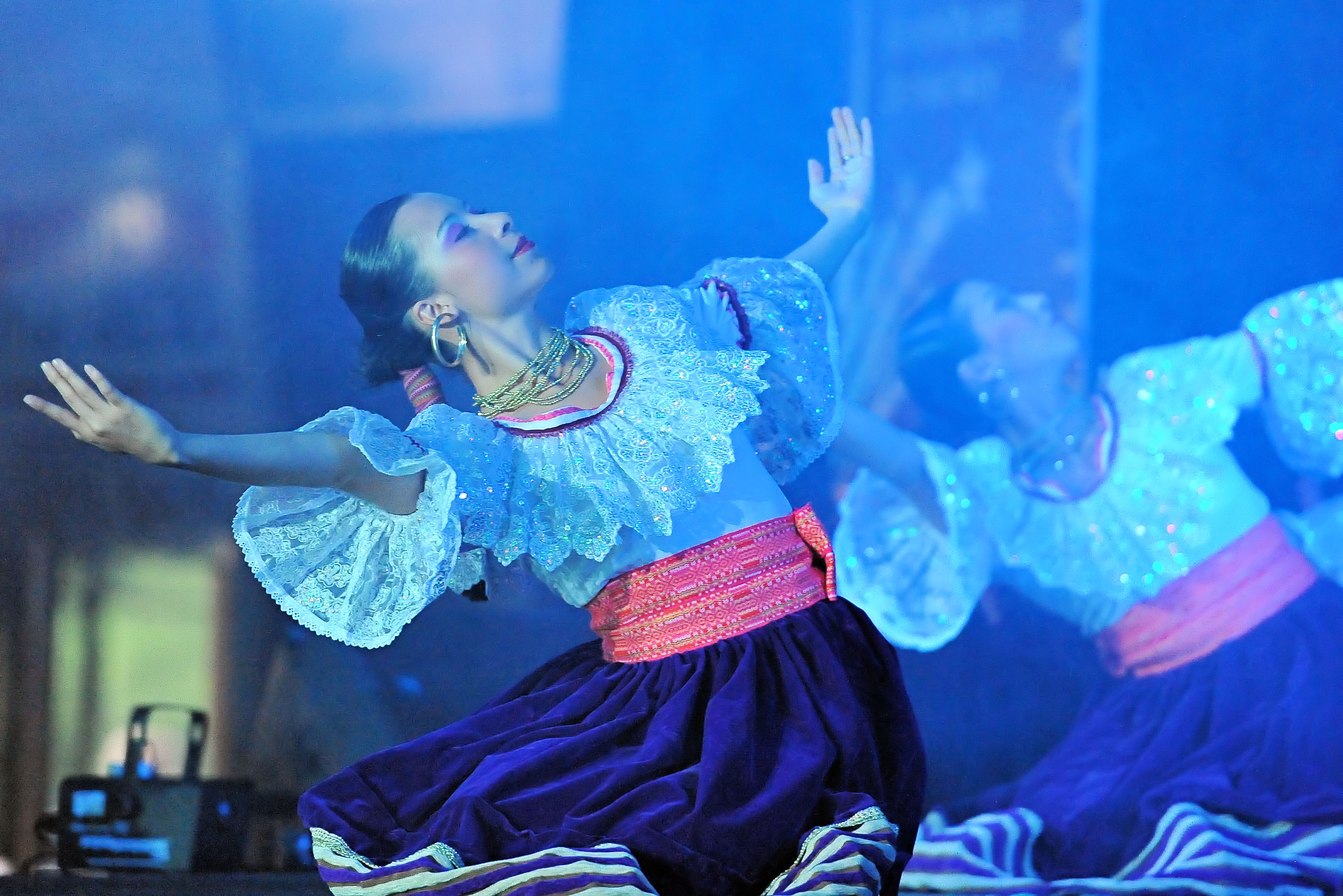 folklorama dancer